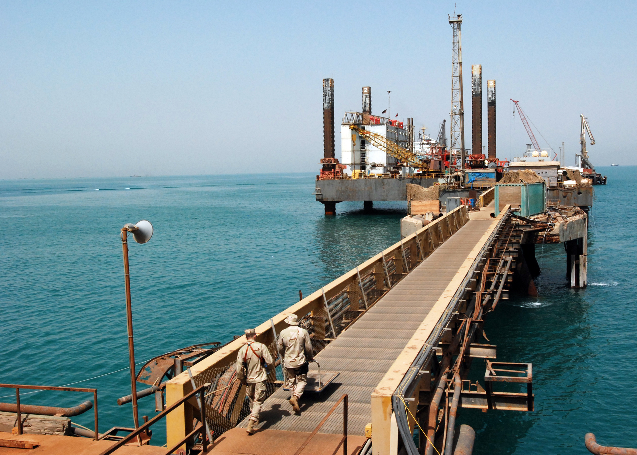 PERSIAN GULF (March 28, 2009) Sailors walk along Iraq's Khawr Al Amaya Oil Platform (KAAOT). U.S. and Coalition forces guard the Khawr Al Amaya Oil Platform and the Al Basrah Oil Terminal, which account for 90 % of Iraq's gross domestic product. U.S. and Coalition forces also continue to train Iraqi personnel in force protection and search and seizure operations in an effort to turn the oil terminals over to Iraqi control. (U.S. Navy photo by Mass Communication 2nd Class Nathan Schaeffer/Released)